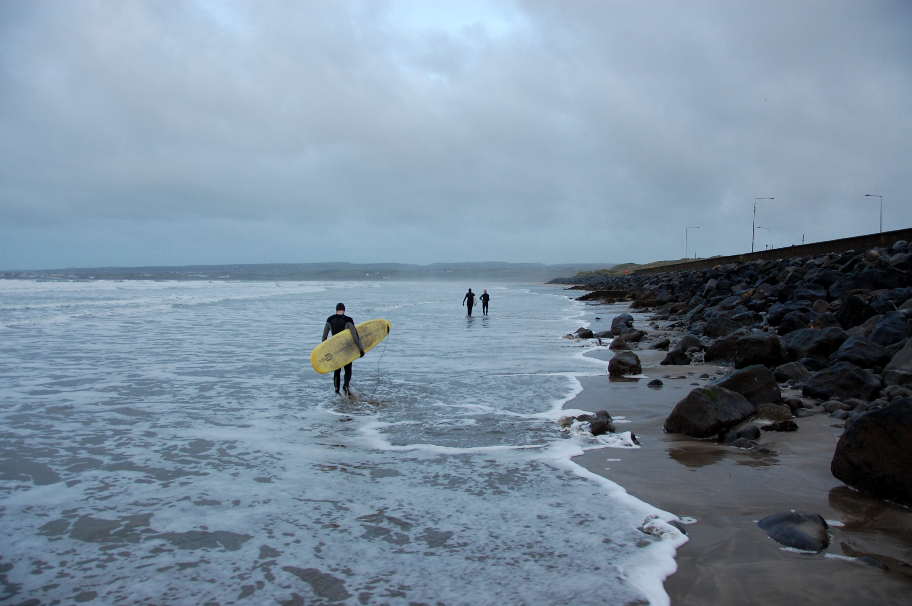 Surfers getting ready to catch some waves at Lahinch, December 2012.